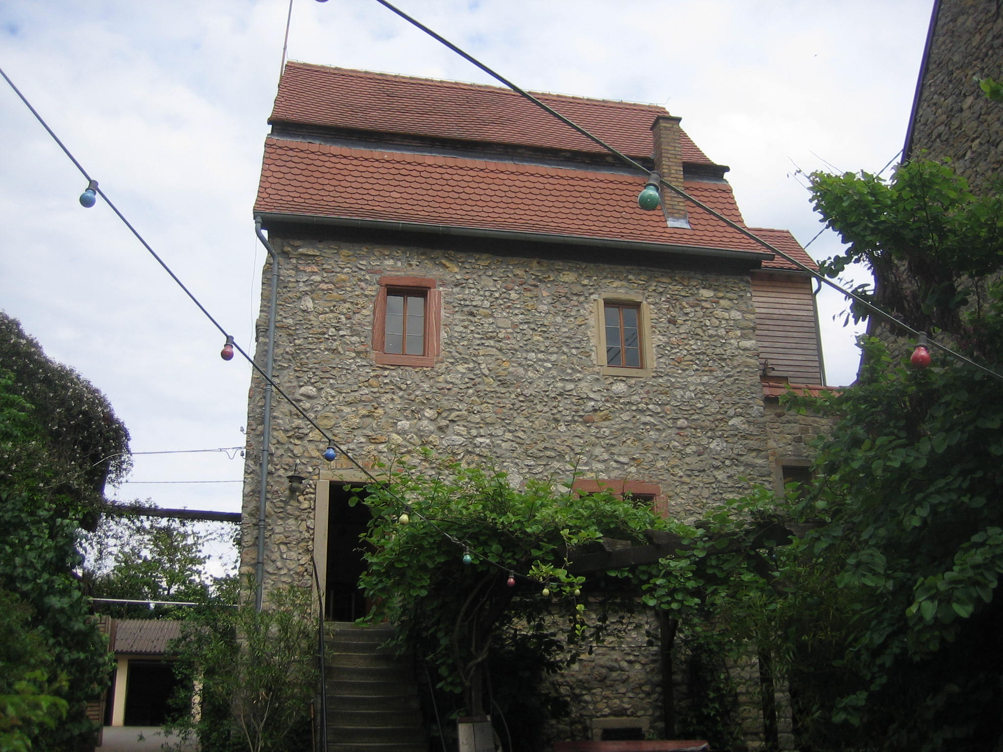 Medieval tower house 15th century. Wintersheim, Germany